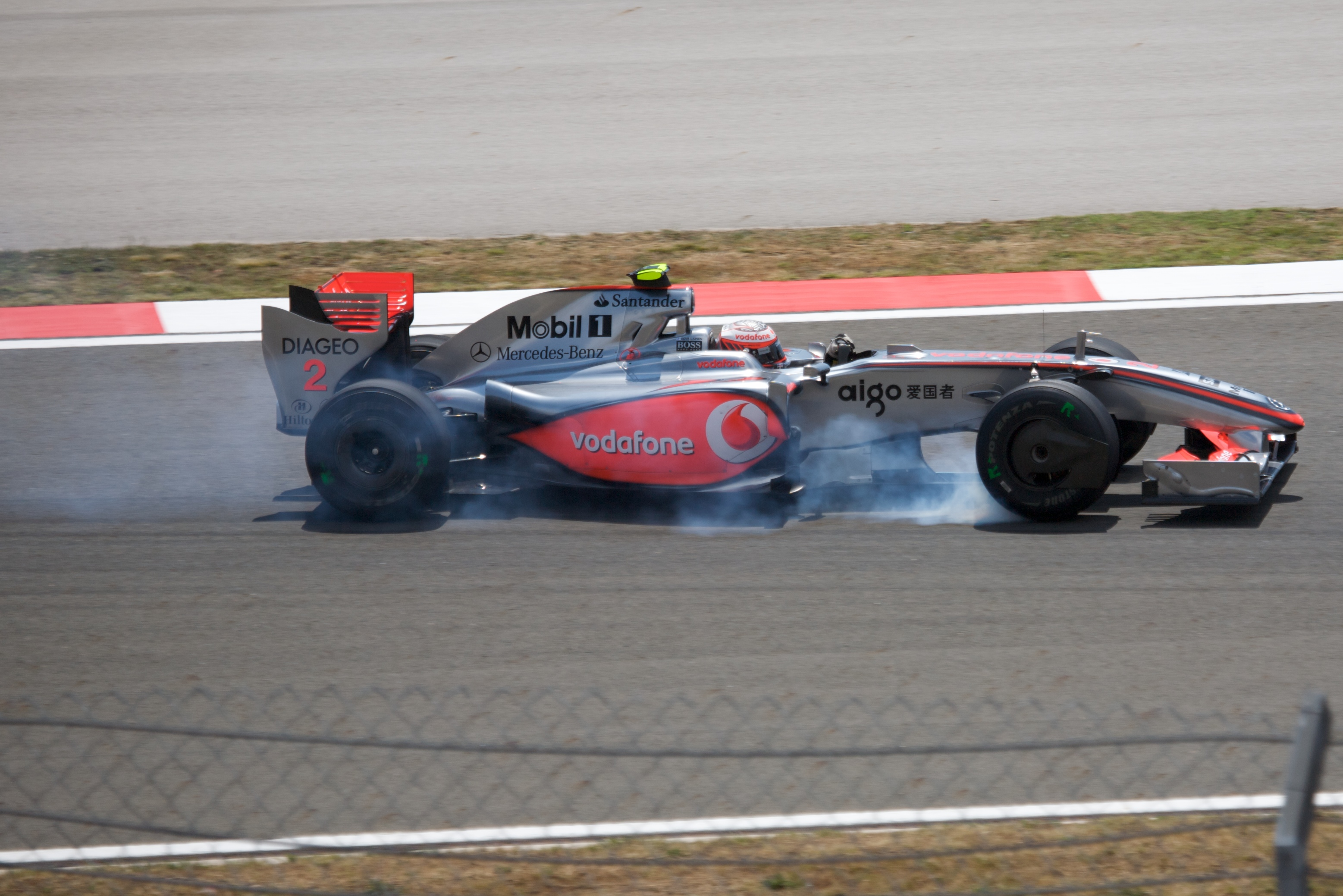 Heikki Kovalainen driving for McLaren at the 2009 Turkish Grand Prix.